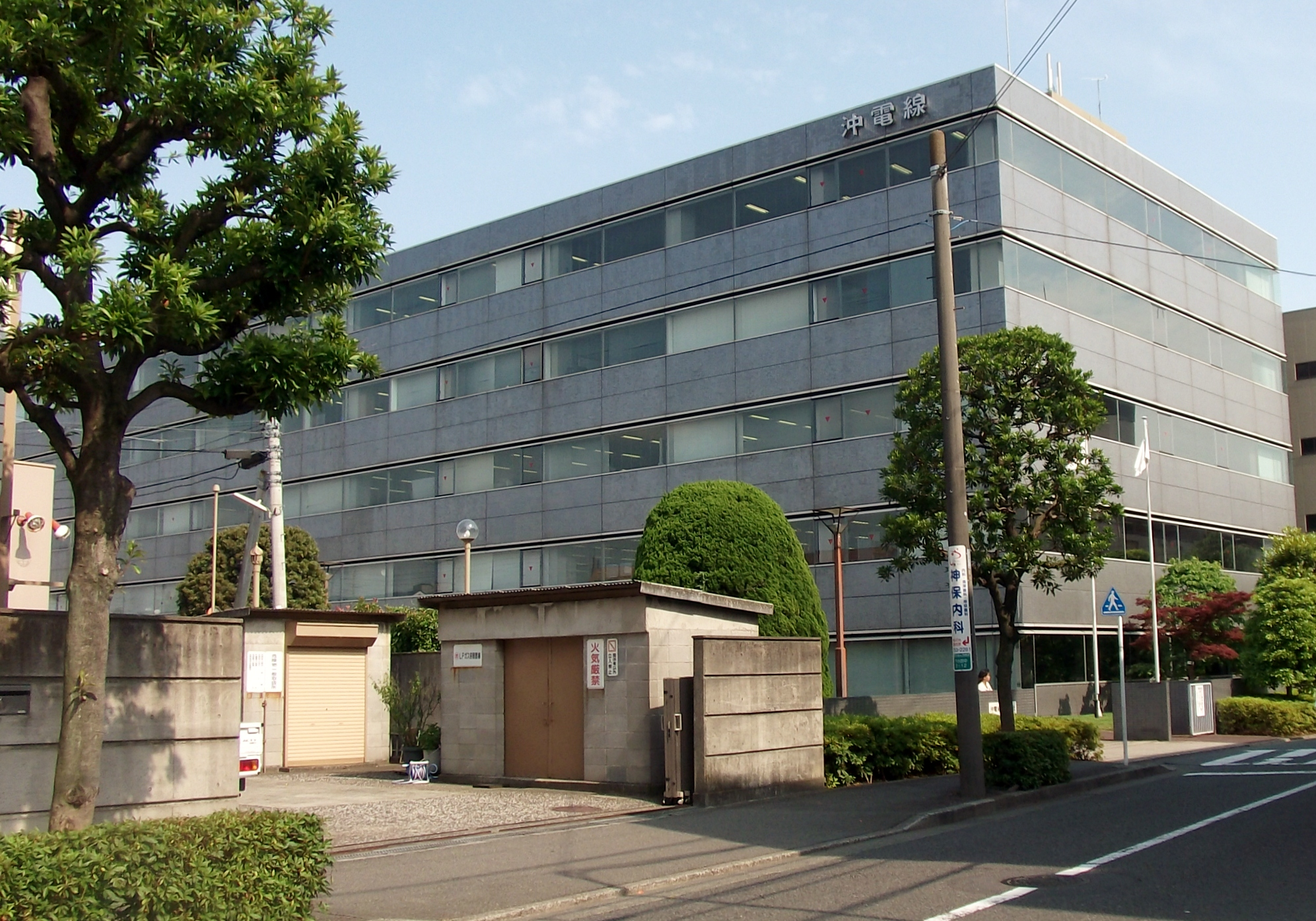 The headquarter of Oki Electric Cable Co., Ltd.